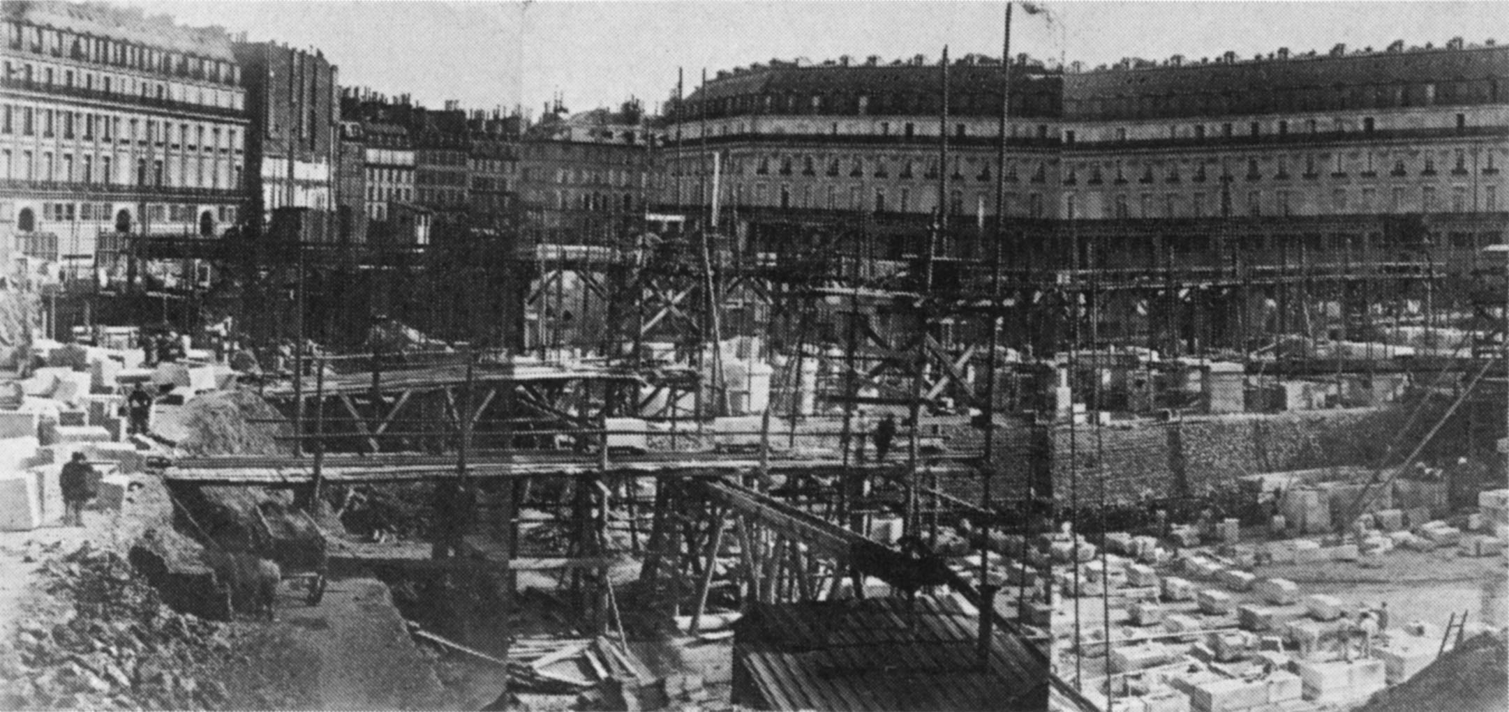 Foundation work for the Palais Garnier viewed from the front in a photograph taken on 20 May 1862